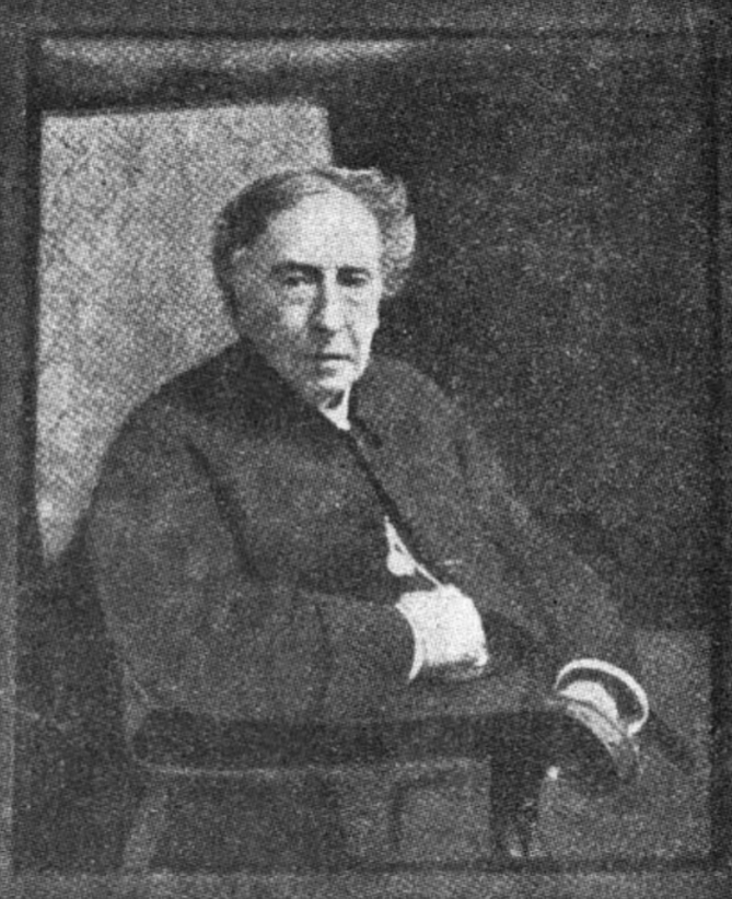 Image from public domain book of Voysey.